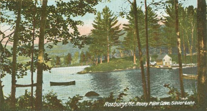 Rocky Point Cove, Silver Lake, Roxbury, Maine; from a 1906 postcard published by the Hugh C. Leighton Company, Portland, Maine. Silver Lake is also called Roxbury Pond and, most commonly, Ellis Pond.